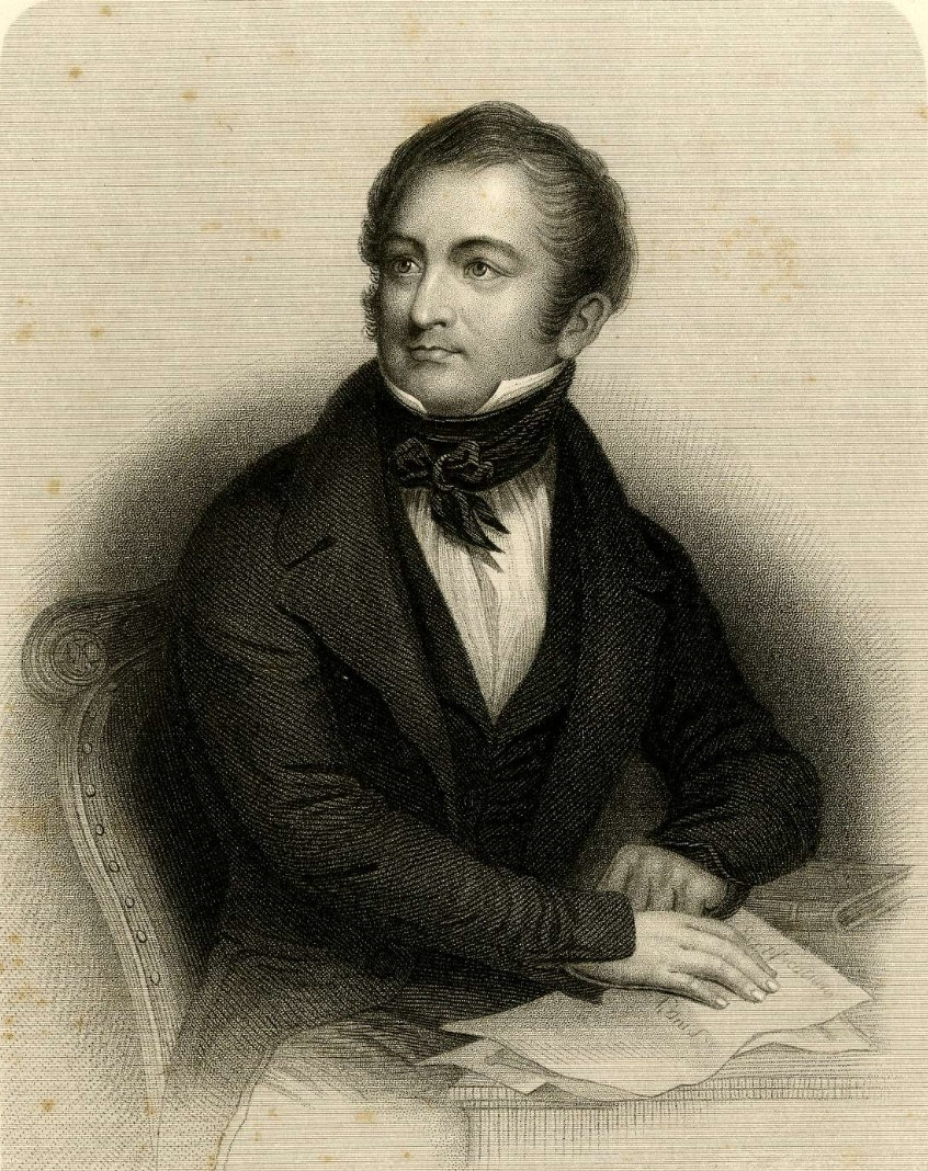 Adolphe Thiers (1797-1877), french politician